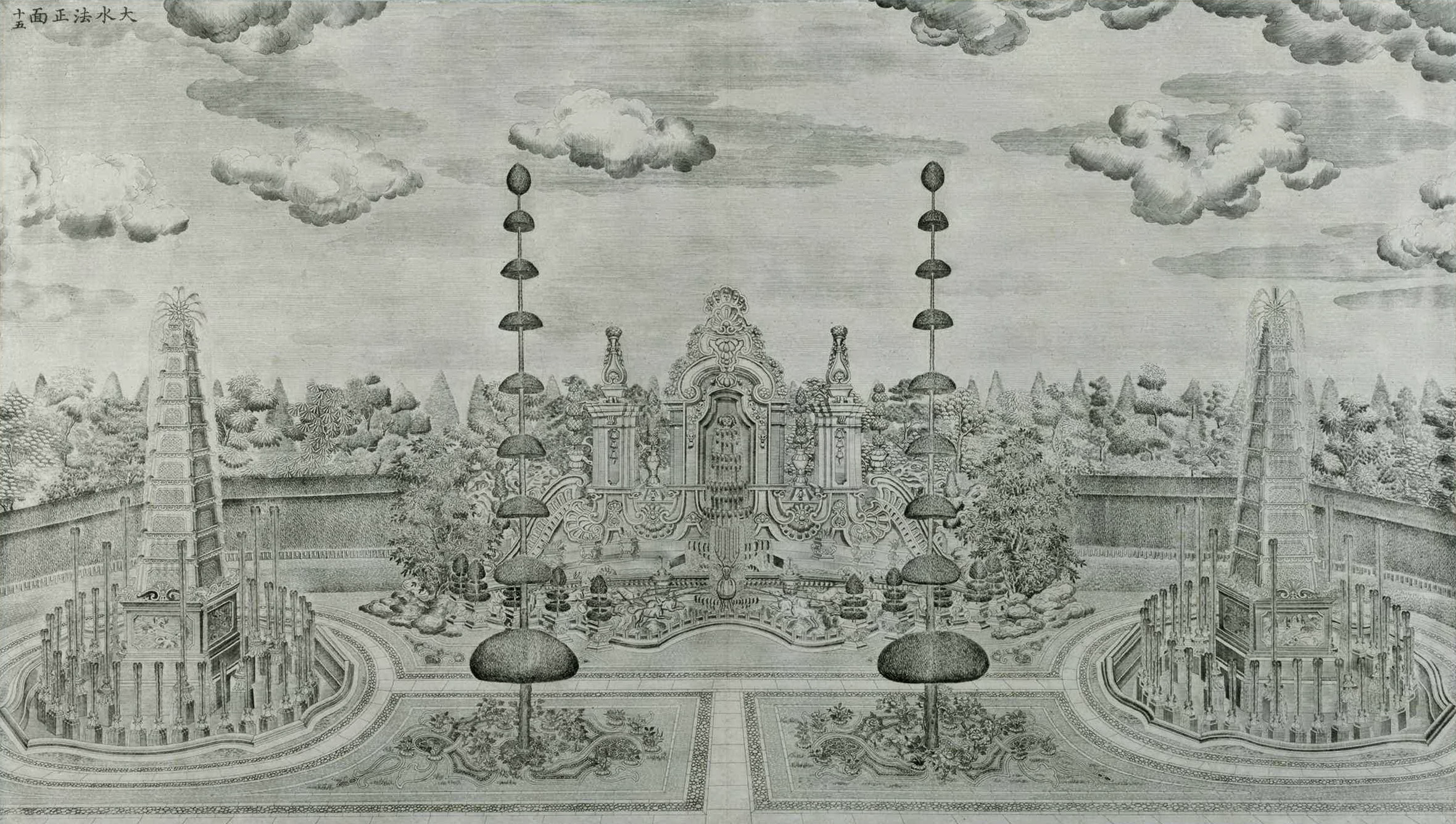 After Yi Lantai, "Dashuifa zhengmian (The Great Fountain main façade)" from "Xiyang shuifa tu (Pictures of the Western-style Buildings and Waterworks)," Plate 15 of 20, ca. 1783-86, copperplate engraving printed on paper, 507 x 877mm.